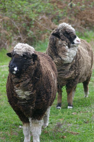 A pair of colored Australian Merino ewes.